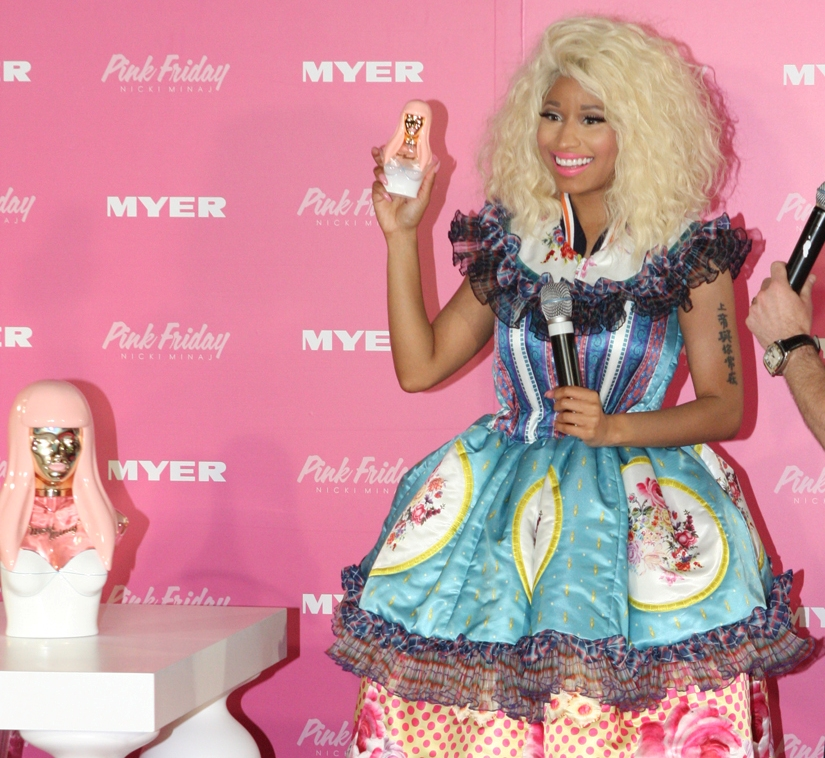 Performing artist Nicki Minaj launches 'Pink Friday' perfume - Sydney, Australia; Myer City store... This afternoon hundreds of people turned up at Myer Sydney to get a close up look at red hot celebrity and performing artist Nicki Minaj. As you might expect, media buzz and security was at an all time high, as everyone jockeyed for the best position to catch a glimpse of the mega star. Nicki Minaj was interviewed on stage about her debut fragrance Pink Friday and the creative and experimental process which pushed the boundaries to achieve her extraordinary vision. This was Minaj's only public appearance outside of her Sydney concert and was a one-off chance for Australian fans to meet with the multi-platinum recording artist who continues to redefine pop culture through her groundbreaking influence on music, beauty and fashion. Thank you to everyone who helped make today possible...Myer, media management, security, and the fans, and we might just see you at her upcoming concerts. Oh, nice perfume too so consider this for your Christmas list.